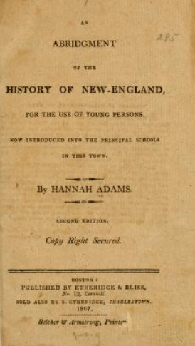 "An abridgment of the history of New-England, for the use of young persons", by Hannah Adams. Published by Etteridge & Blos; Boston; 1807.